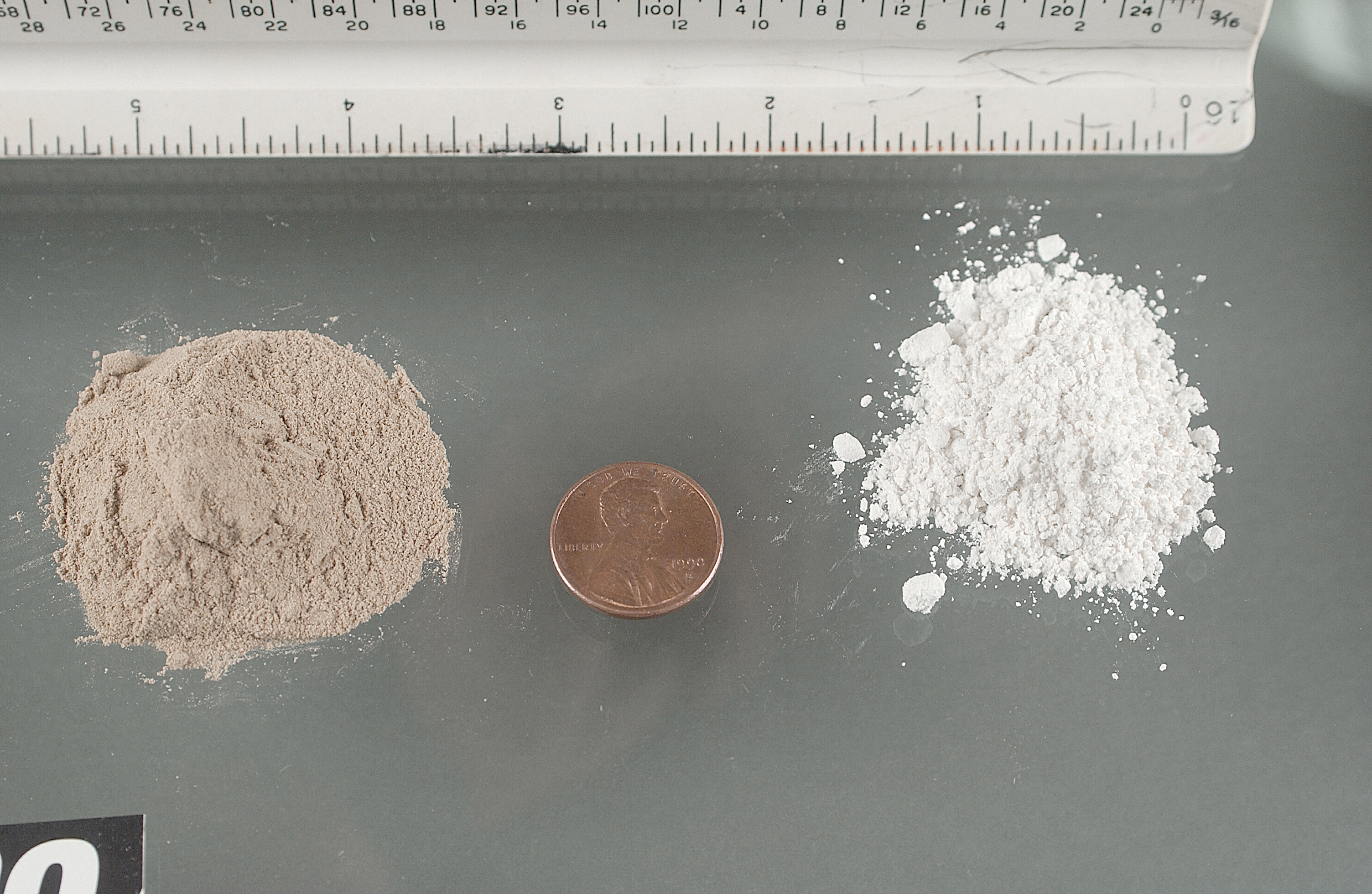 High quality image of Asian heroin